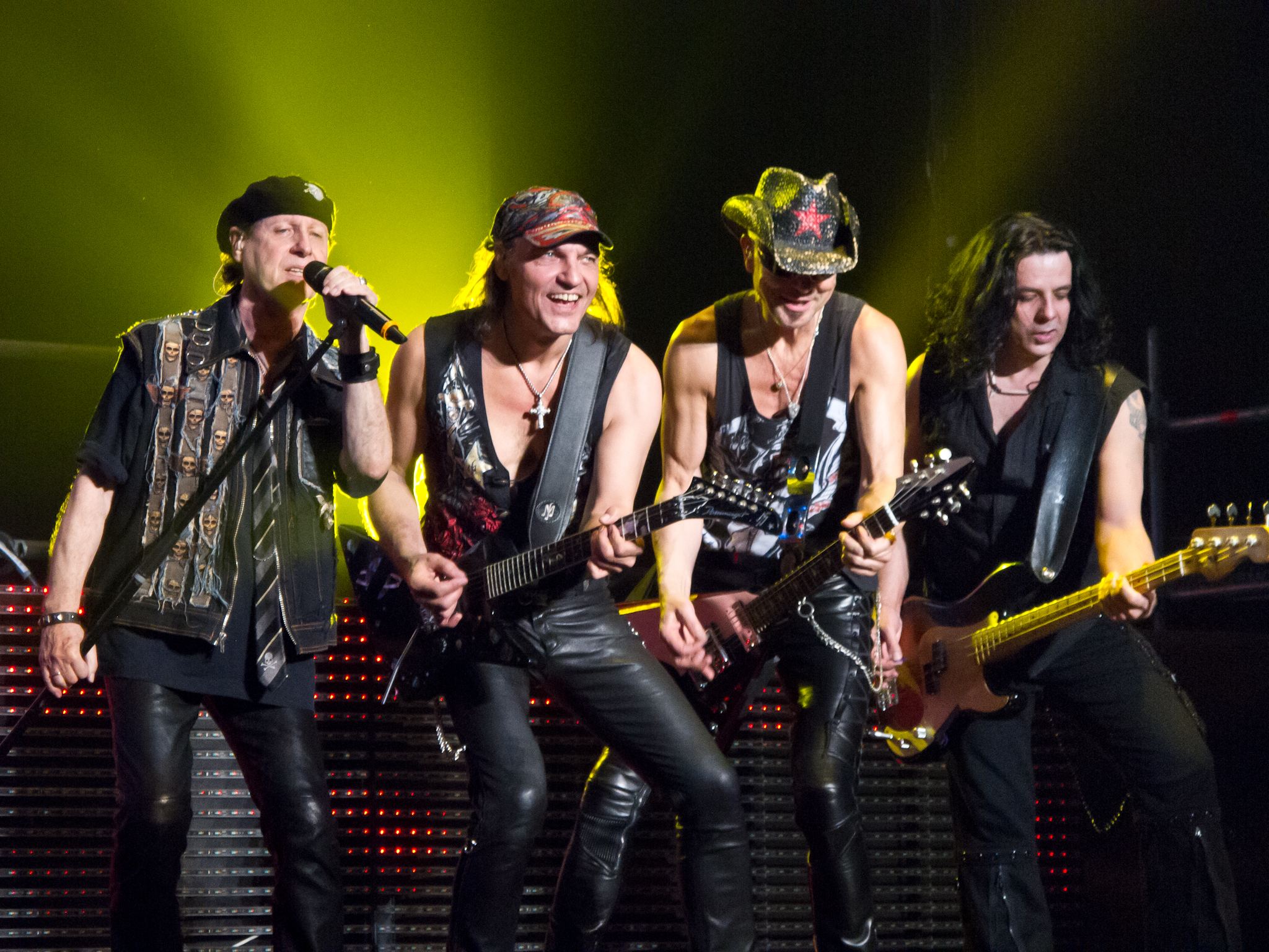 German rock band Scorpions in Madrid in 2014. From left to right: Klaus Meine, Matthias Jabs, Rudolf Schenker and Paweł Mąciwoda. James Kottak on drums.